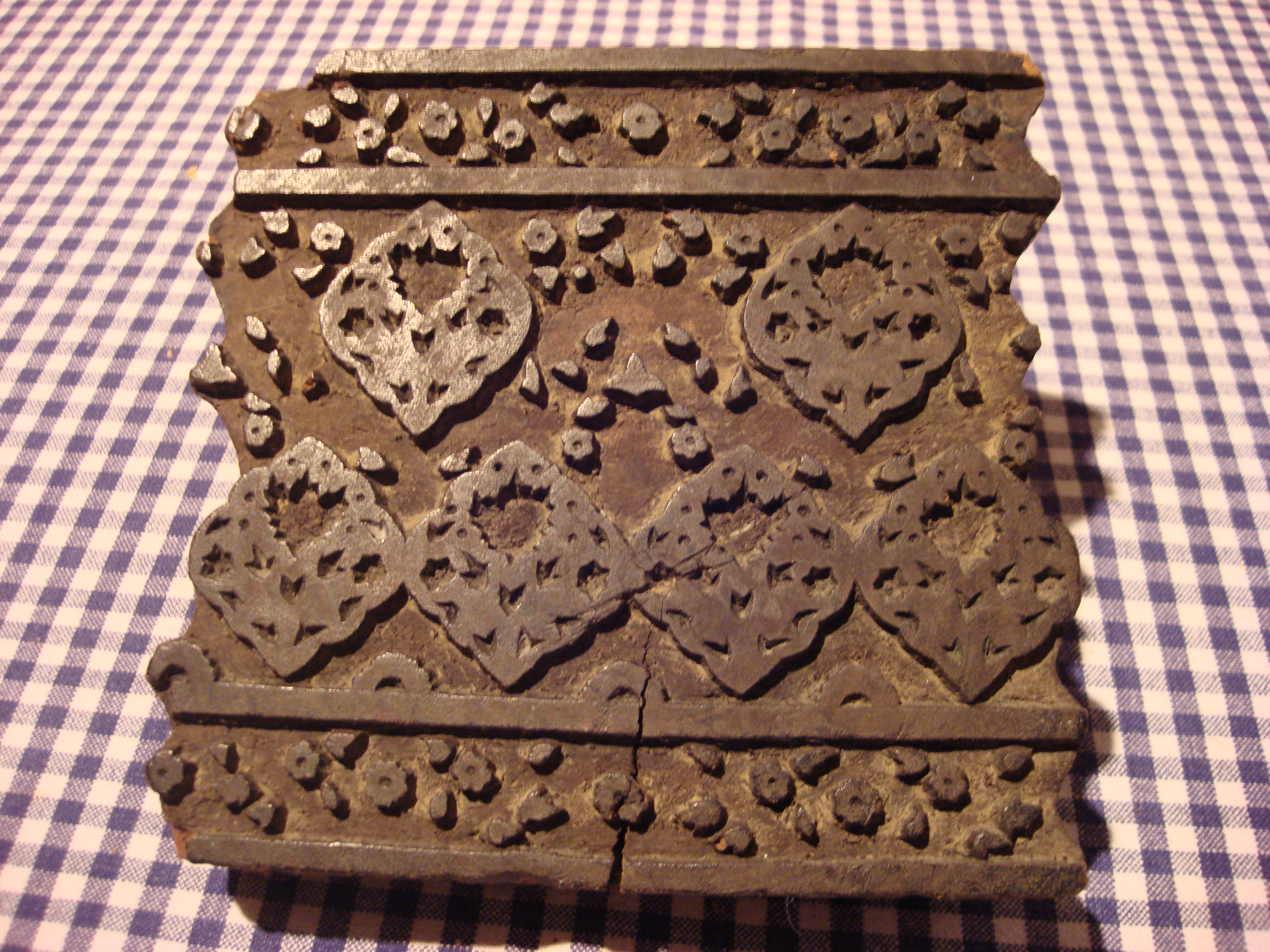 A carved wooden printing block for Textile printing.